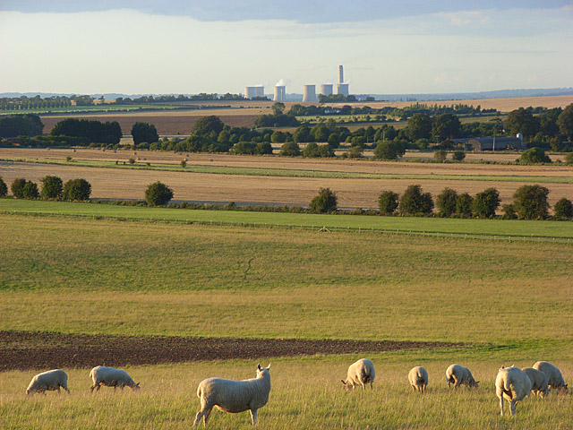 Compton Downs. A view down to Didcot Power Station with buildings near Churn Farm also visible.